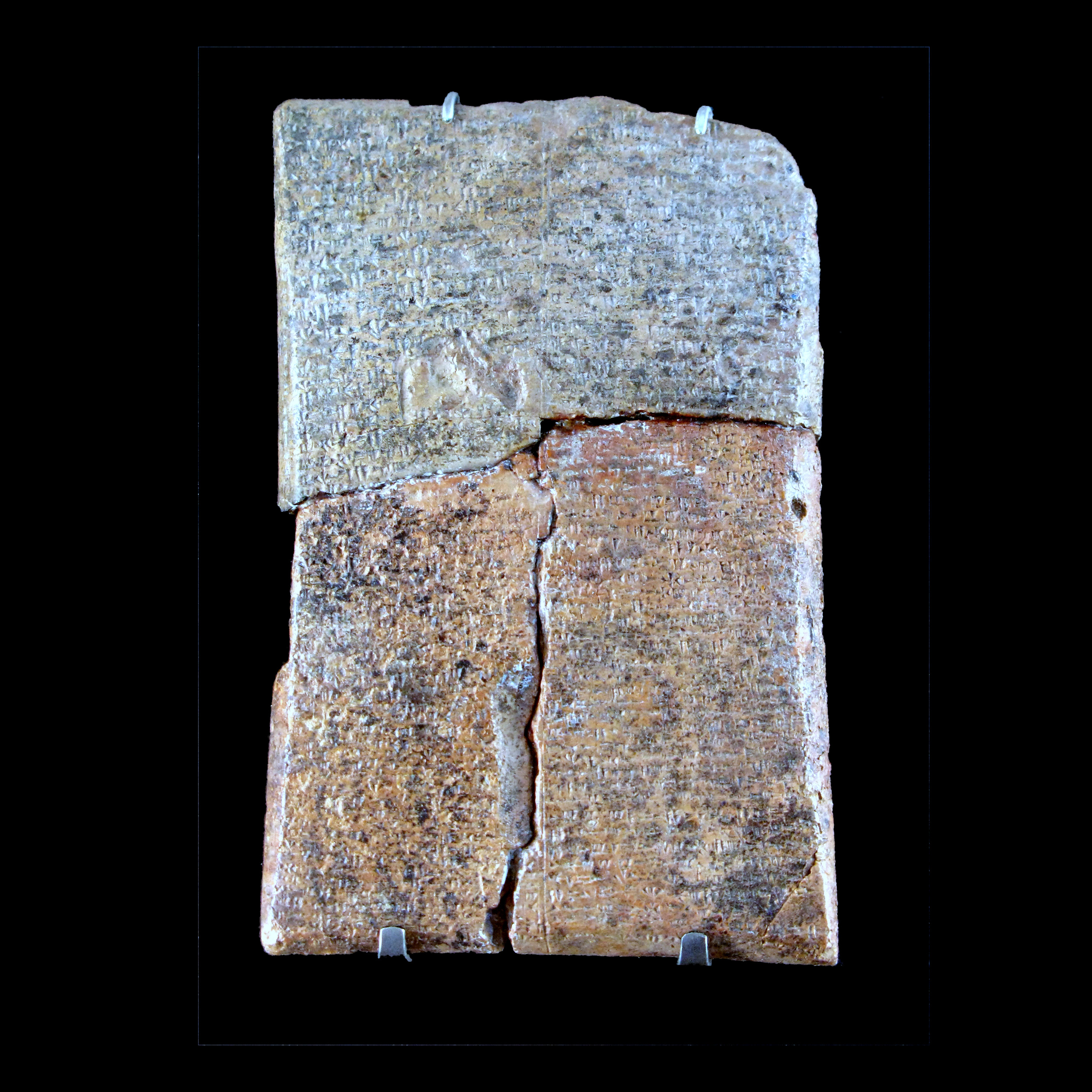 ArtistUnknownDescription Tablet: the legend of Danel and his son Aqhat, or the Epic of Aqhat. Alphabitic cuneiform writing, Ugarit language ca. 14th - 13th century BCE Ras Shamra (house of the Great Priest) Terra cotta Current location (Inventory)Louvre Museum Native nameMusée du LouvreLocationParisCoordinates48° 51′ 37″ N, 2° 20′ 15″ E Established1793Website control : Q19675 VIAF: 257711507 ISNI: 0000 0001 2260 177X ULAN: 500125189 LCCN: n80020283 NLA: 35912436 WorldCat Department of Oriental Antiquities Sully lower ground floor room B Display 12Accession numberAO 17323 Credit lineFouilles C. Schaeffer, 1931ReferencesLouvre.frSource/PhotographerRama Tablet: the legend of Danel and his son Aqhat, or the Epic of Aqhat. Alphabitic cuneiform writing, Ugarit language ca. 14th - 13th century BCE Ras Shamra (house of the Great Priest) Terra cotta